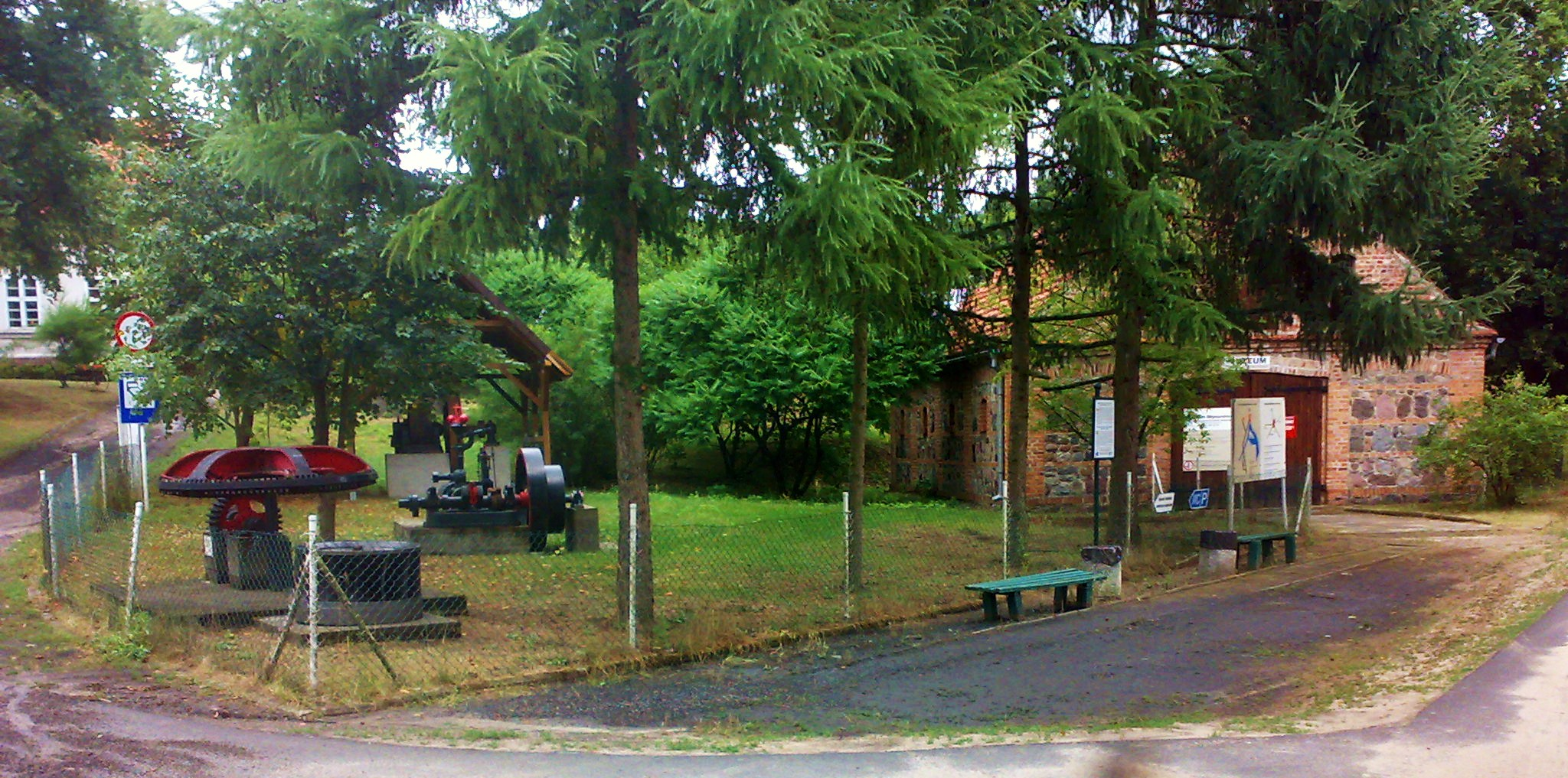 Jaracz, PL.